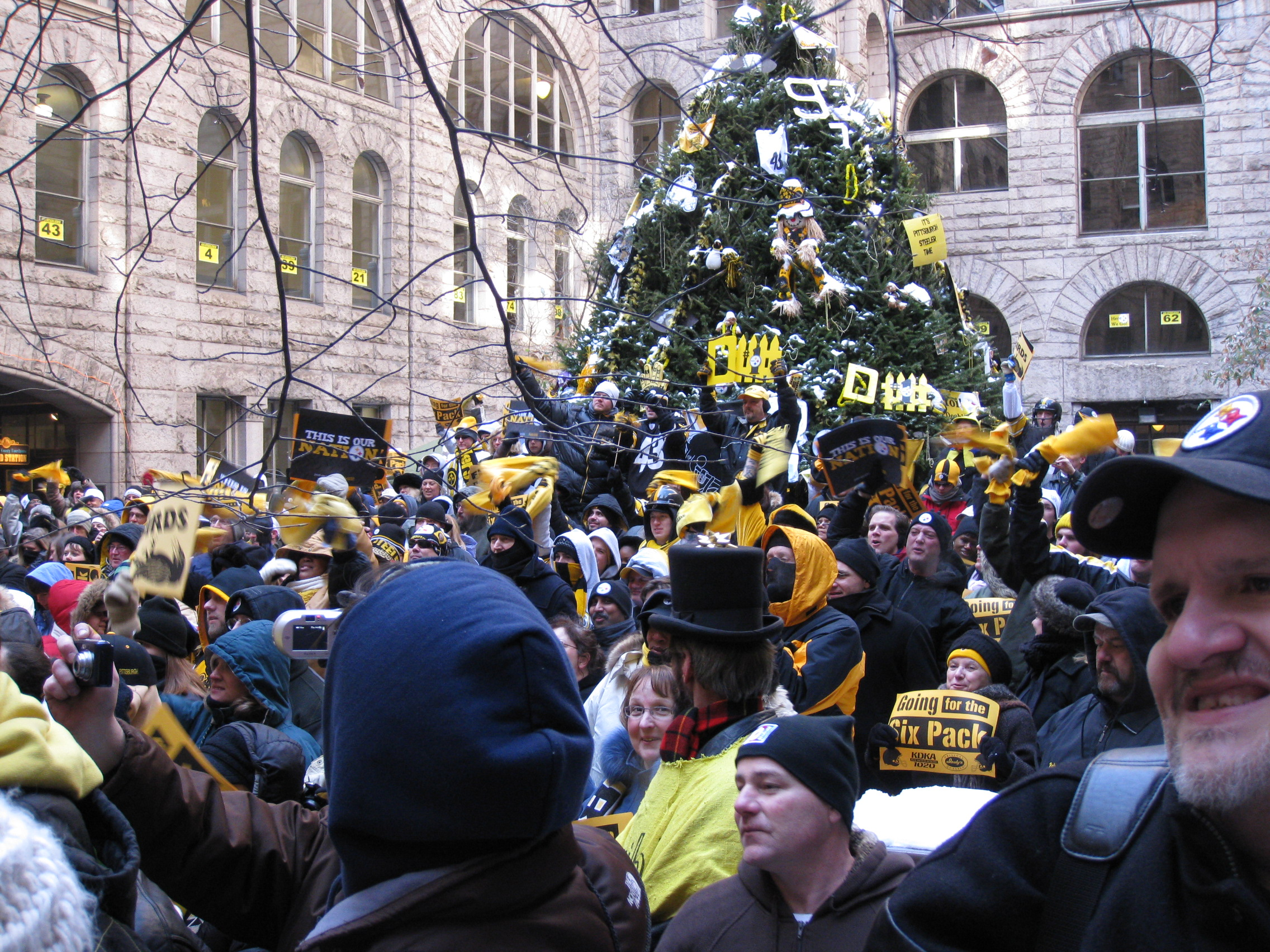 Rally for the Pittsburgh Steelers at the Allegheny County Courthouse before a game against the Baltimore_Ravens. The tree in the courtyard is decorated with a Terrible Towel theme.